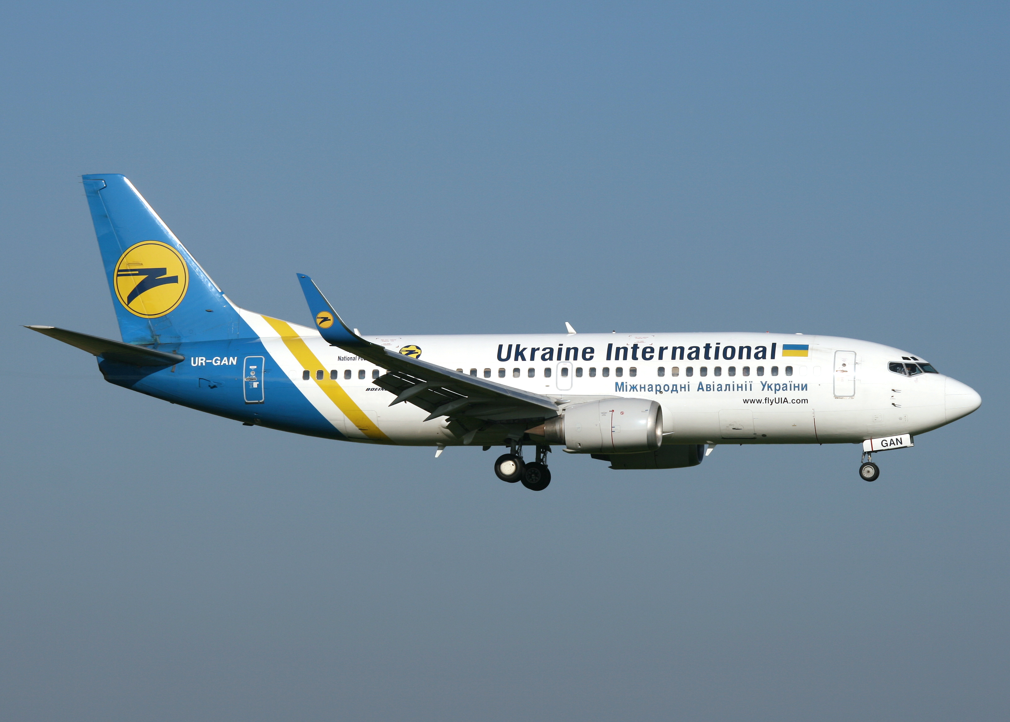 Ams/ Eham 24-07-08